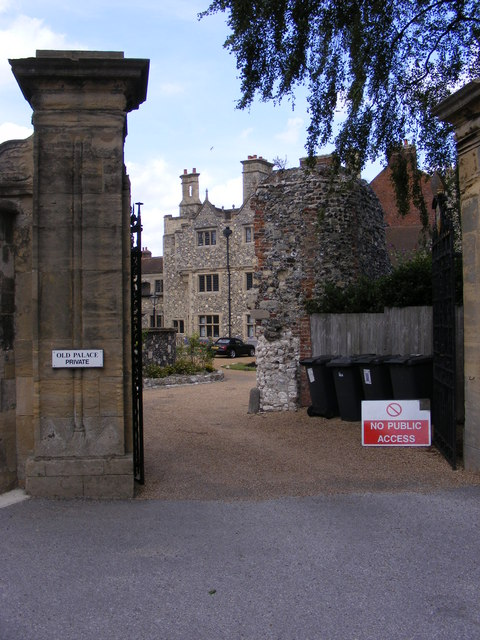 The Old Palace The residence of the Archbishop of Canterbury, at the west end of the Cathedral Close.